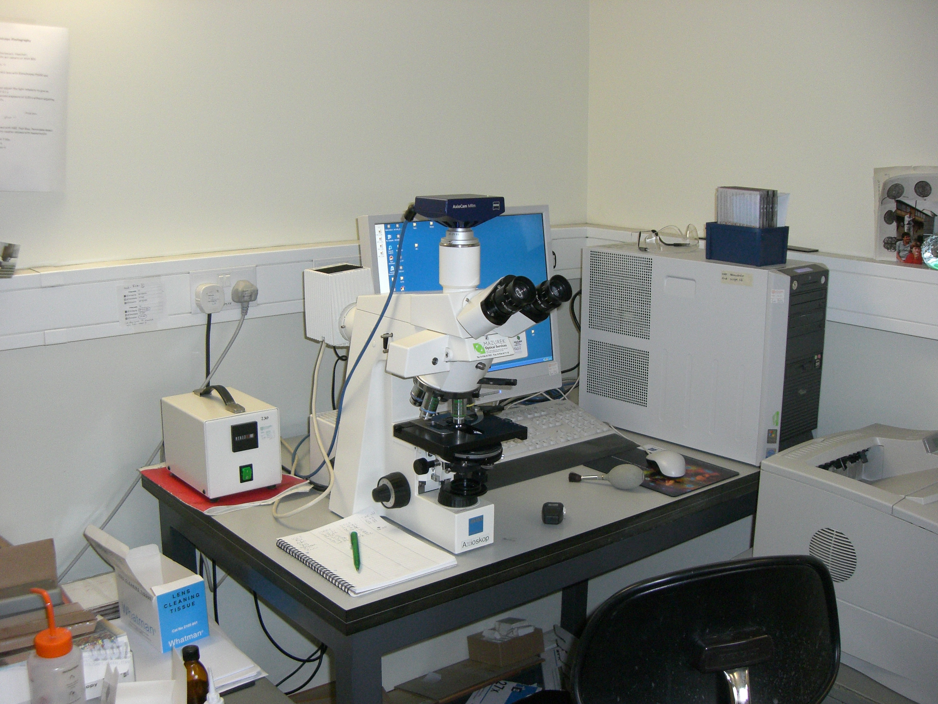 By Richard Wheeler (Zephyris) 2007. Inverted microscope.